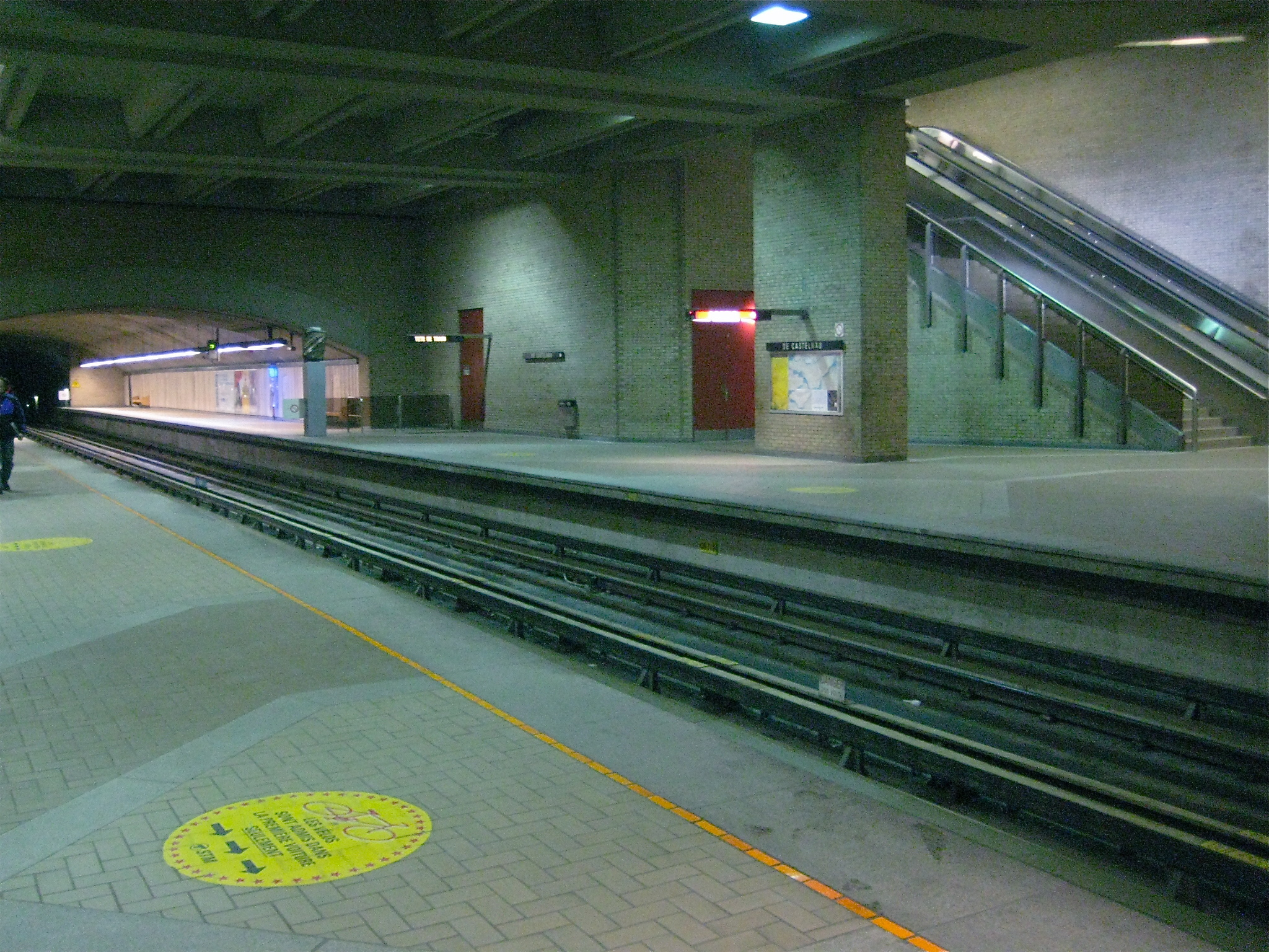 De Castelnau Metro station platform